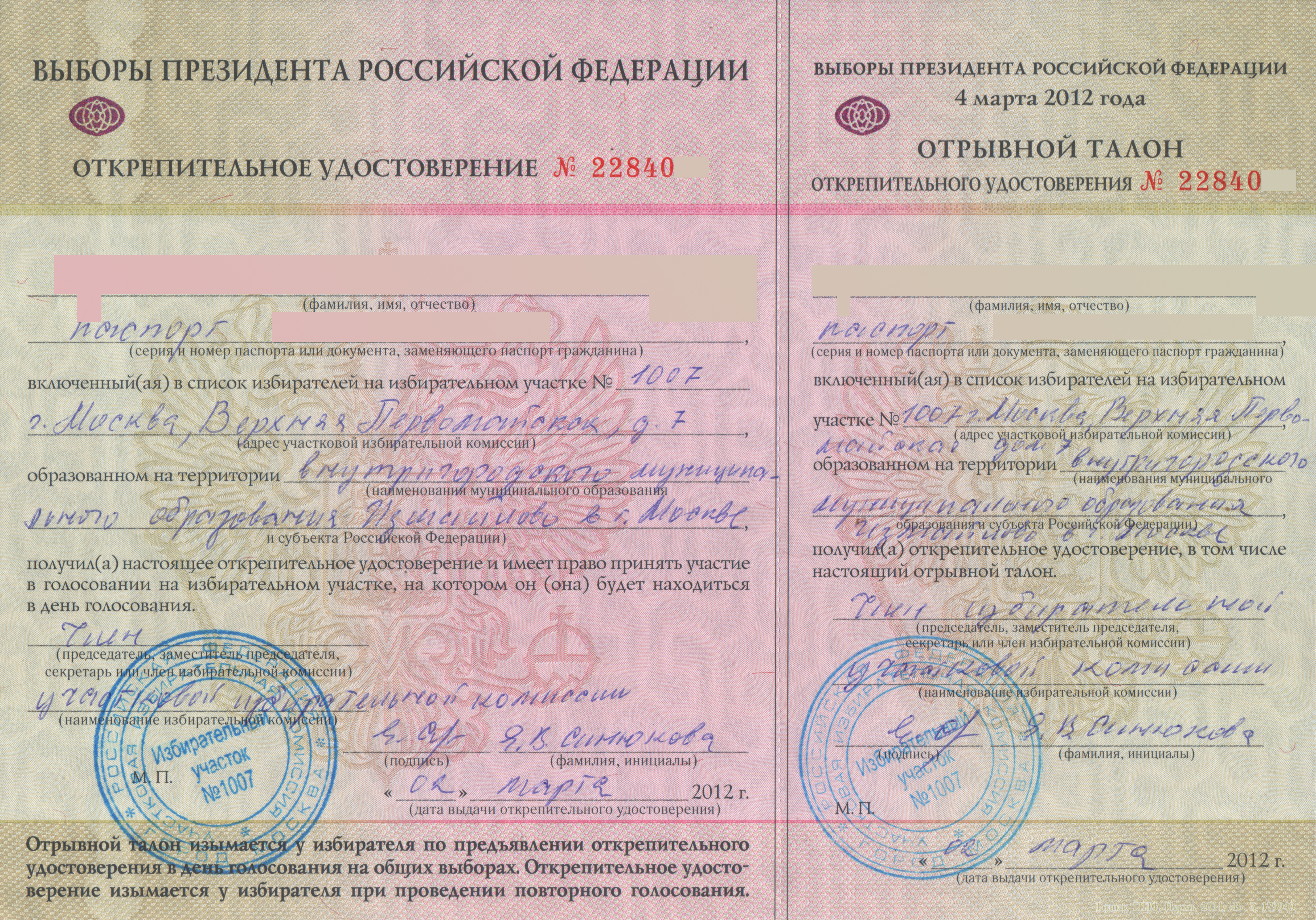 Absentee certificate for participation in the election of the President of the Russian Federation, March 4, 2012.